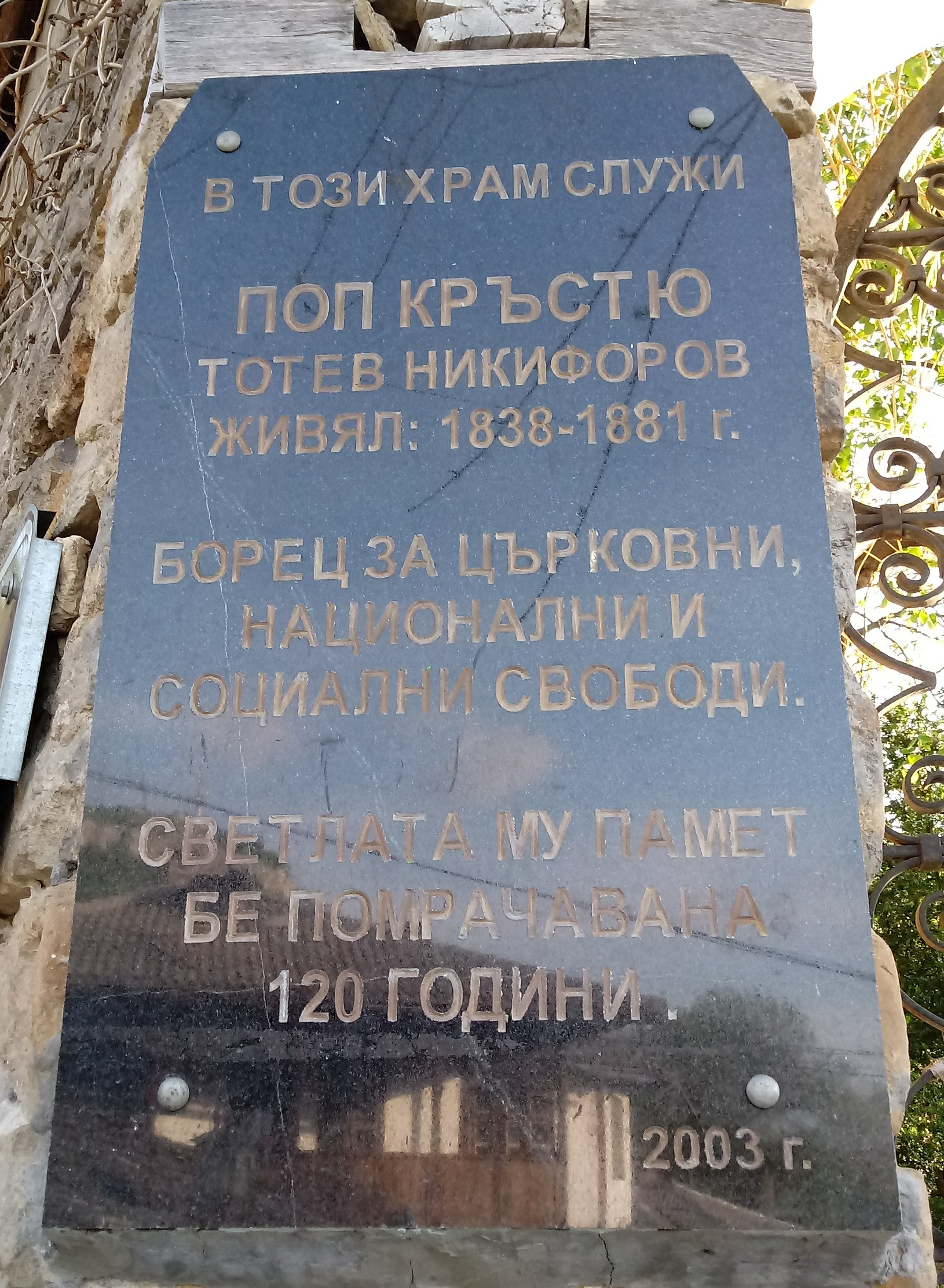 Pop Krustyo church memorial plaque, Lovech